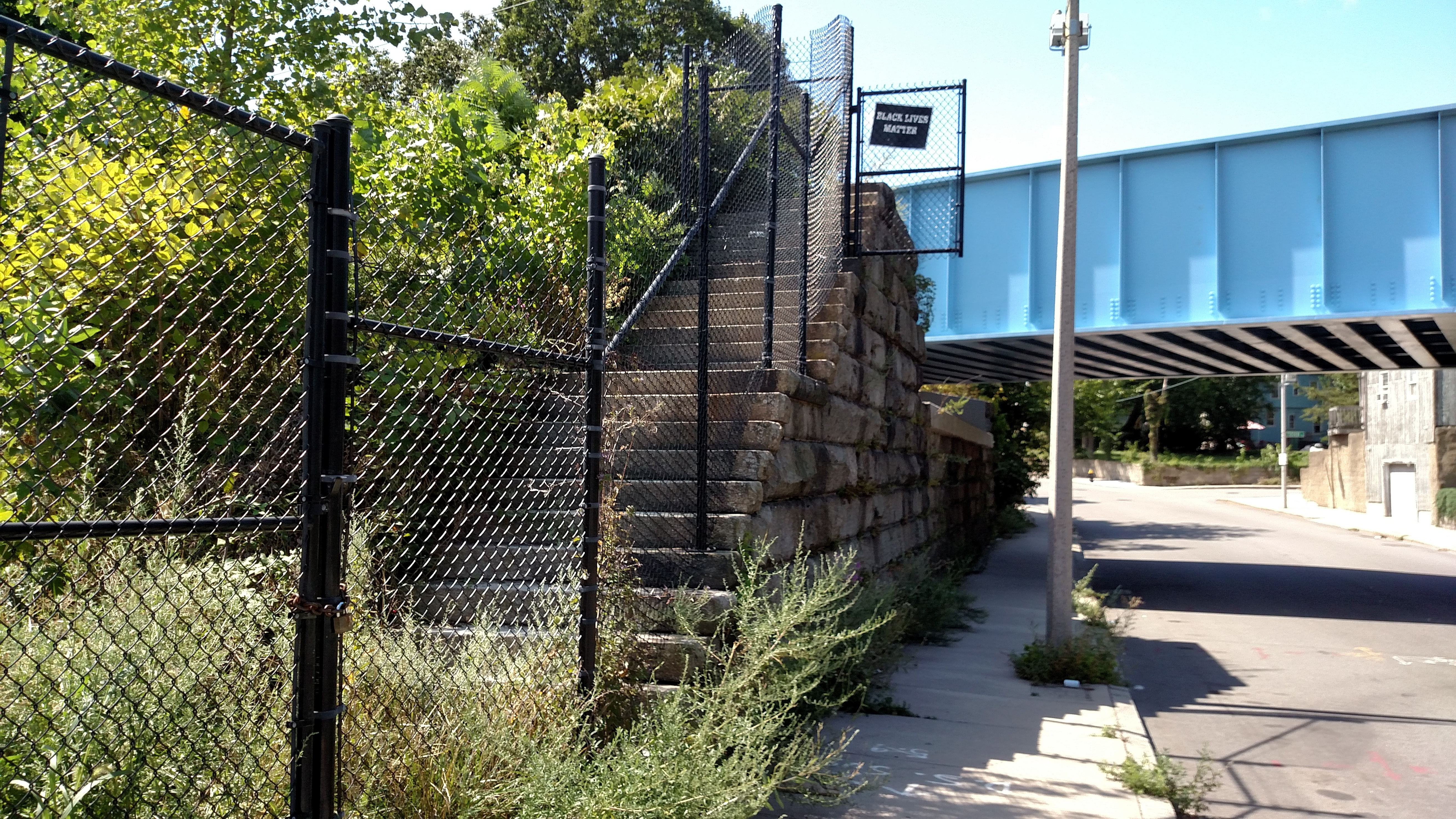 Abandoned stone steps leading to what was once the northbound platform at Dorchester station, seen in in August 2018